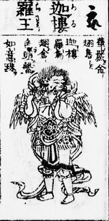 Karura, as one of Buddhist deities which is based on Garuda.